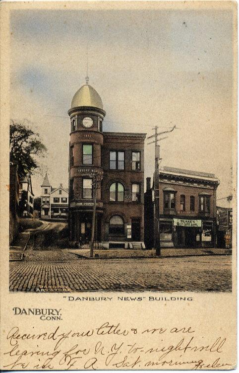 Postcard: The News Building, Danbury, Connecticut, 1906 postmark Description: Store Web page states: "Postmarked Aug. 23, 1906 with a Danbury cancel and mailed to W Dedrick, Fall River, Mass." Caption on front of postcard states: "'Danbury News' Building / Danbury, Conn."